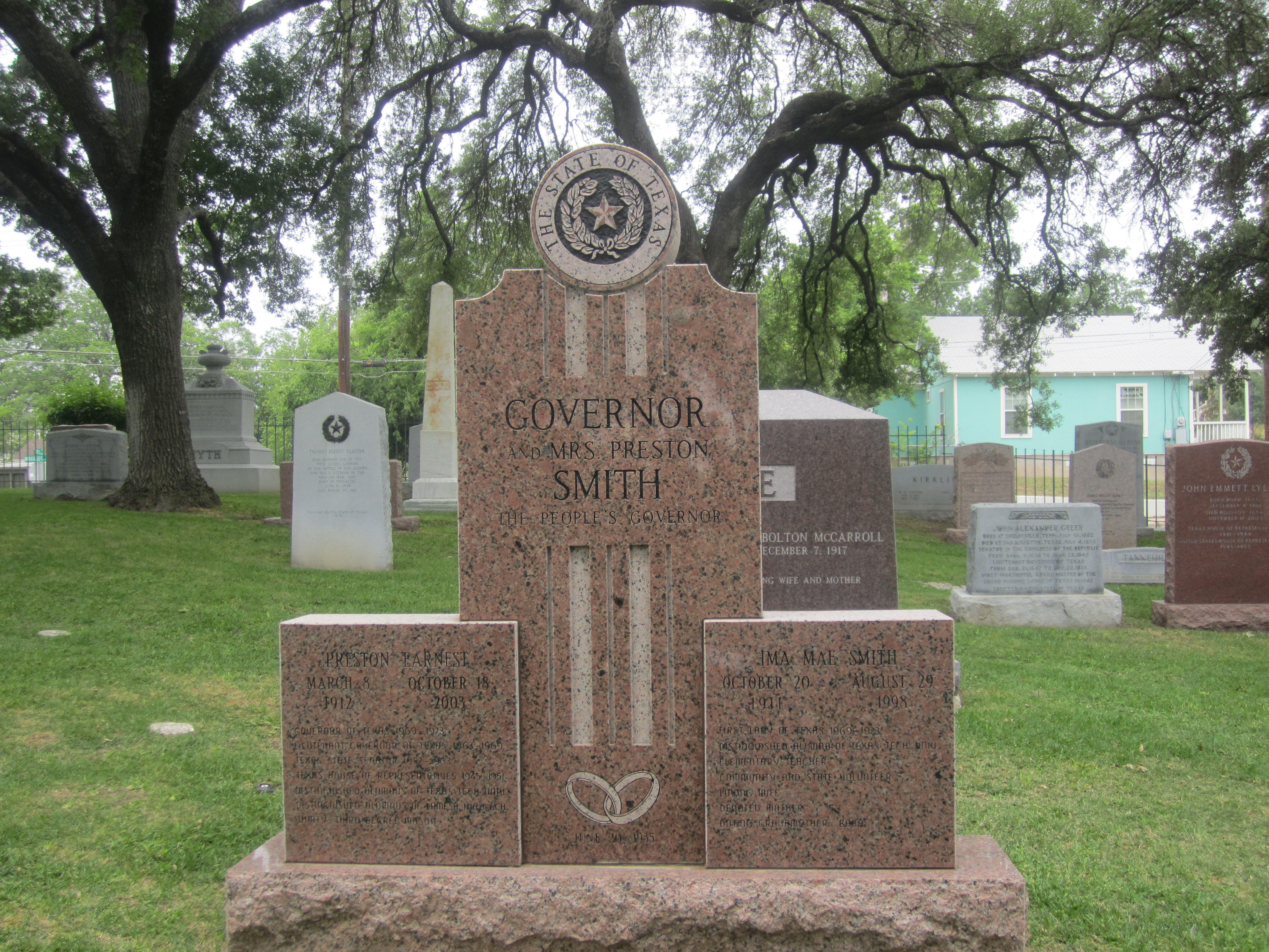 I took photo of Preston Smith monument at TX State Cemetery in Austin with Canon camera.